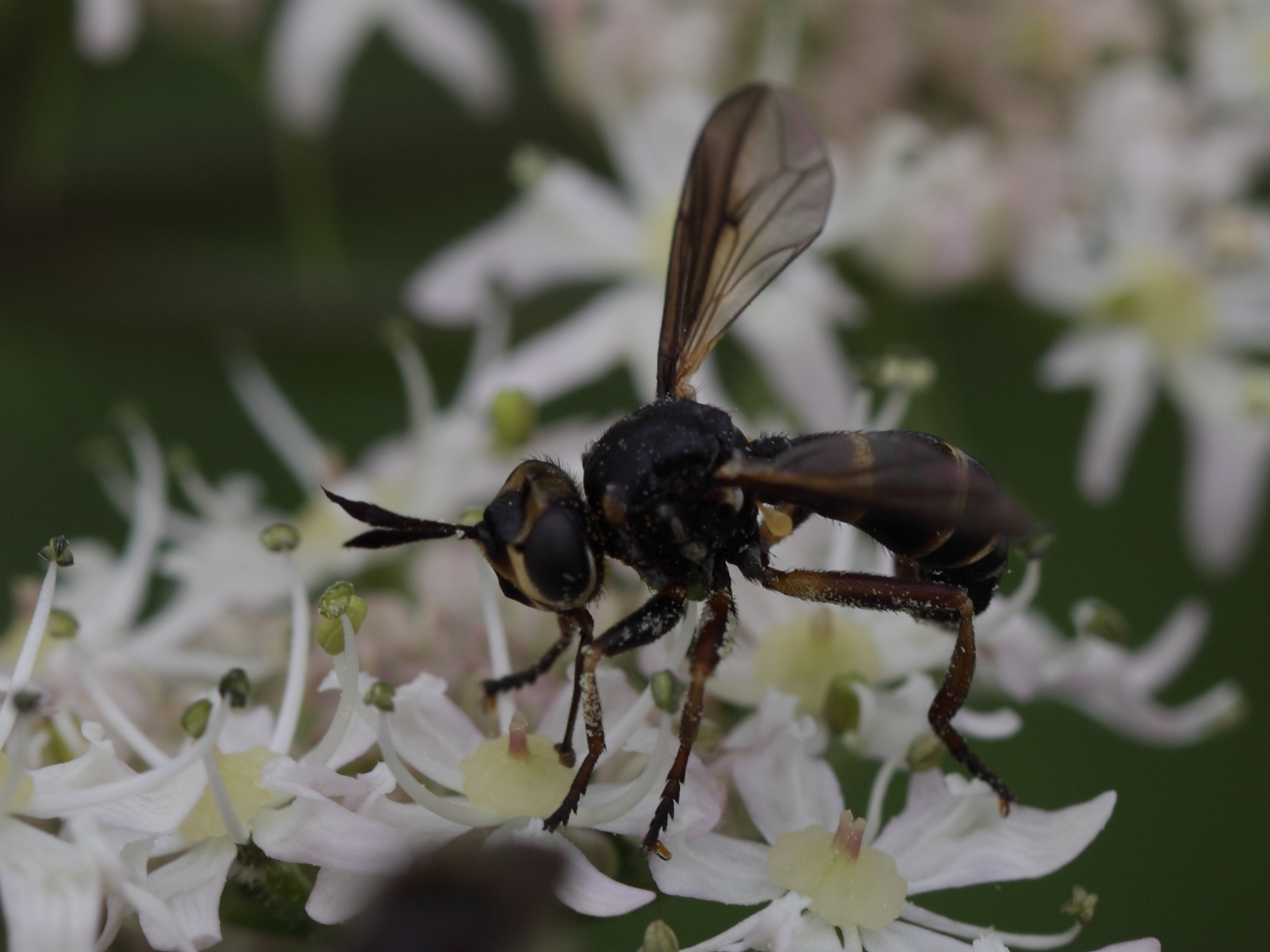 The larvae of Conopini are (endo-)parasitic on bees, especially bumblebees and wasps. Most adults will feed on nectar. Conops strigatus WIEDEMANN IN MEIGEN, 1824 [det. "Ophrus" 2013, based on photos] Subgenus Conops LINNAEUS, 1761 Genus: Conops LINNAEUS, 1758 Tribus: Conopini Subfamily: Conopinae Family: Conopidae (thick-headed flies, Dickkopf- oder Blasenkopffliegen) Superfamily: Conopoidea Suborder: Brachycera (Fliegen) Order: Diptera (Zweiflügler) Subclass: Pterygota Class: Insecta Subphylum: Hexapoda Phylum: Arthropoda (before, it was identified as: Genus: Physocephala SCHINER, 1861 (Stieldickkopffliege) [det. "terraincognita96", 2012, based on photos] Tribus: Physocephalini, but here the connectivum is much more slender! please compare: Conopidae KEYs: Genera: species: plant: Heracleum sphondylium (Common Hogweed, Wiesen-Bärenklau oder Gemeine Bärenklau) Family: Apiaceae (Doldenblütler) Order: Apiales SE-Germany, Bavaria: vic. Regensburg, 24.07.2011 IMG_3844